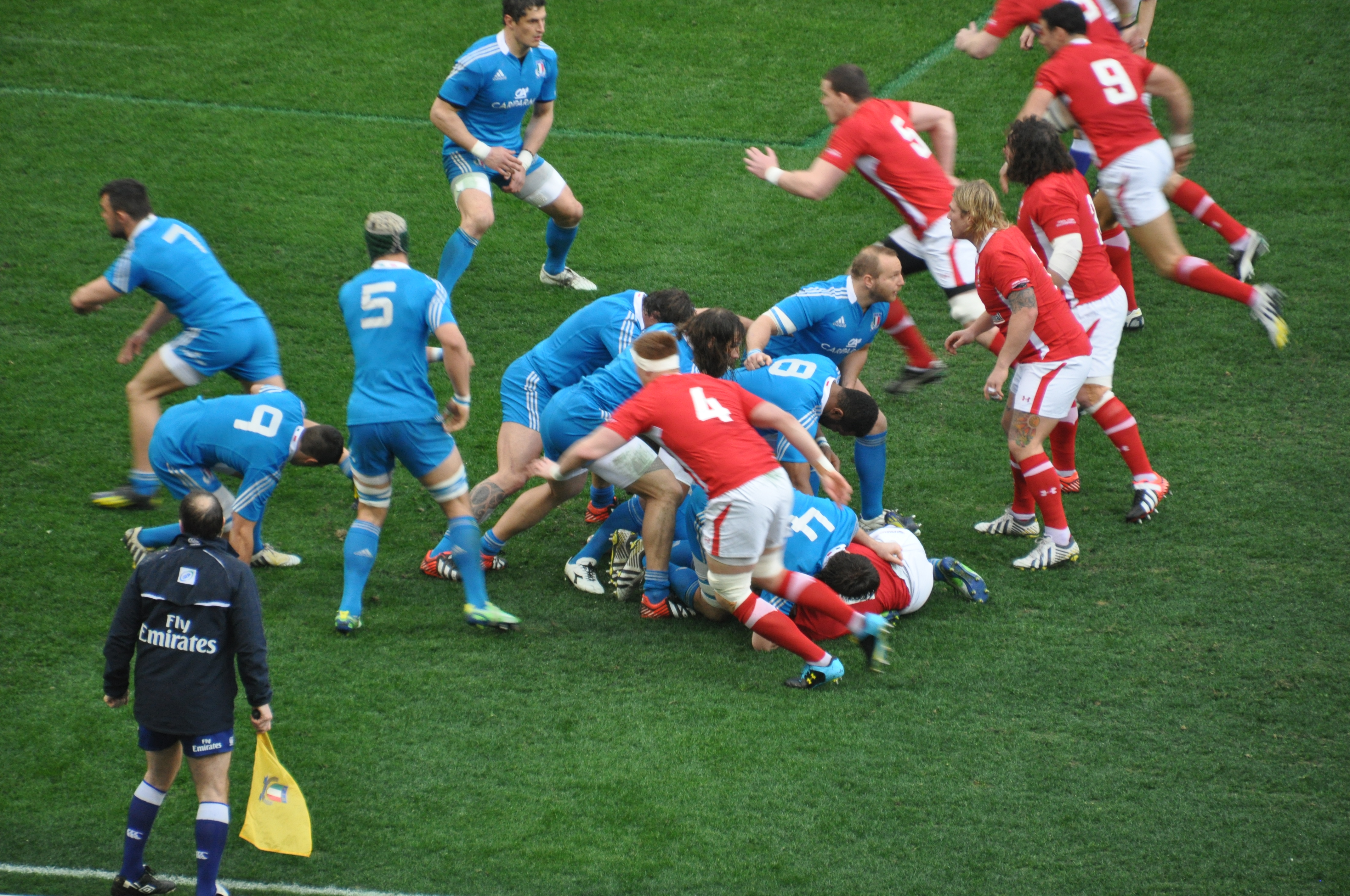 2013 Six Nations Italy vs Wales